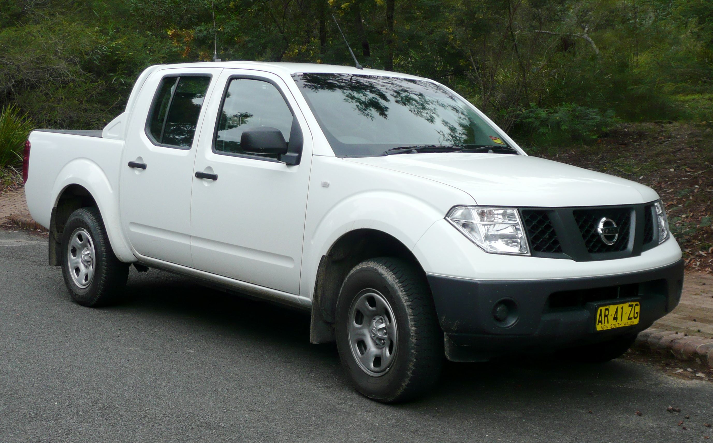 2005–2007 Nissan Navara (D40) RX 4-door utility. Photographed in Audley, New South Wales, Australia.